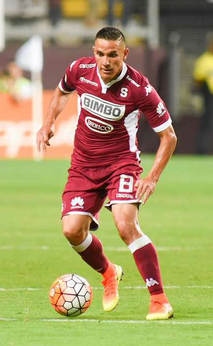 David Guzmán playing for Deportivo Saprissa on July 10, 2016.